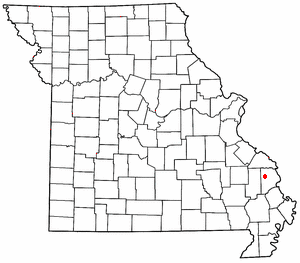 Modified from a map on Wikipedia.